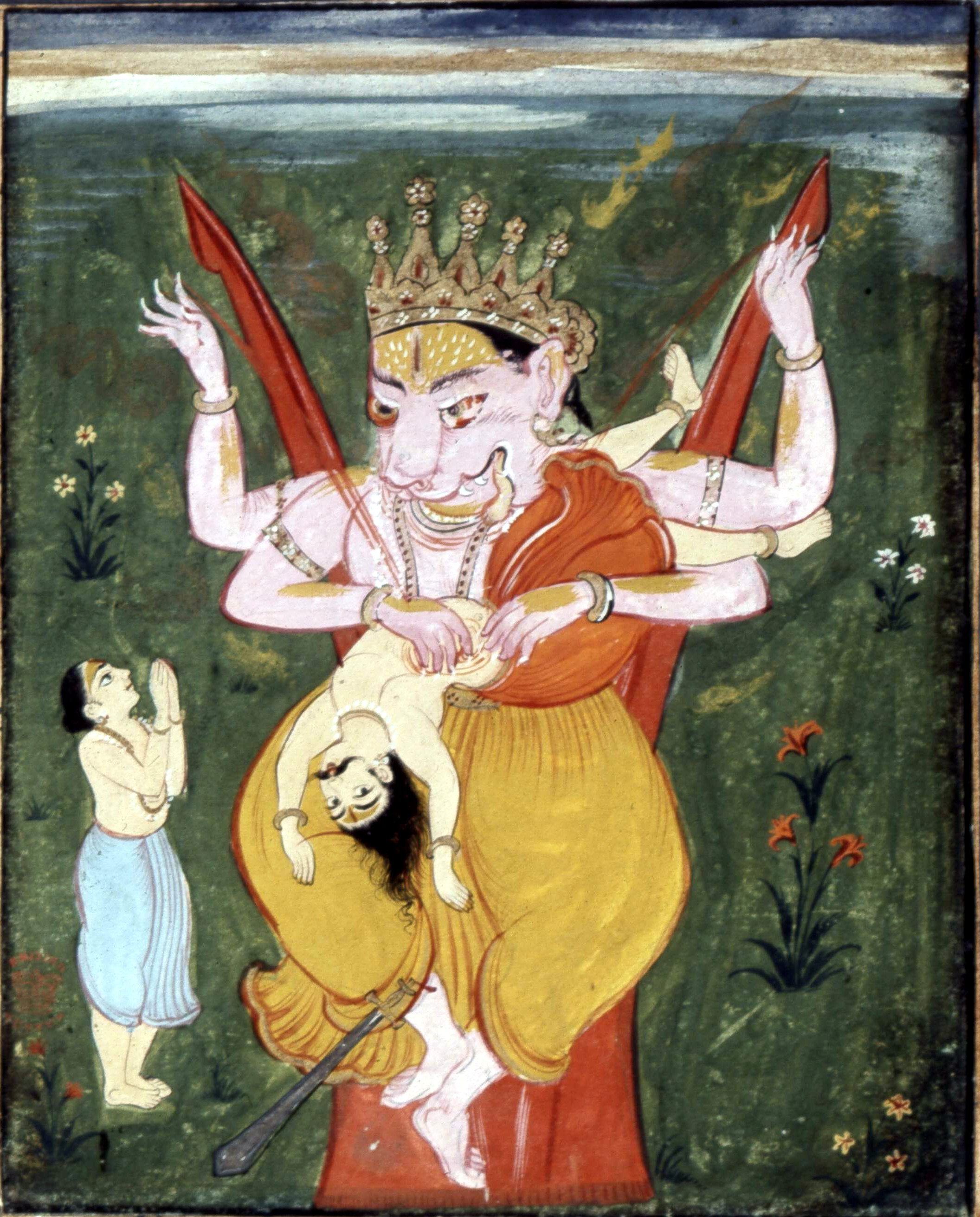 Album leaf (recto); painting. Deity. Viṣṇu as Narasimha tearing Hiranyakasipu to pieces. Painted on paper.